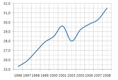 Krasnoznamens' population, Moscow region, Russia (1996-2008).